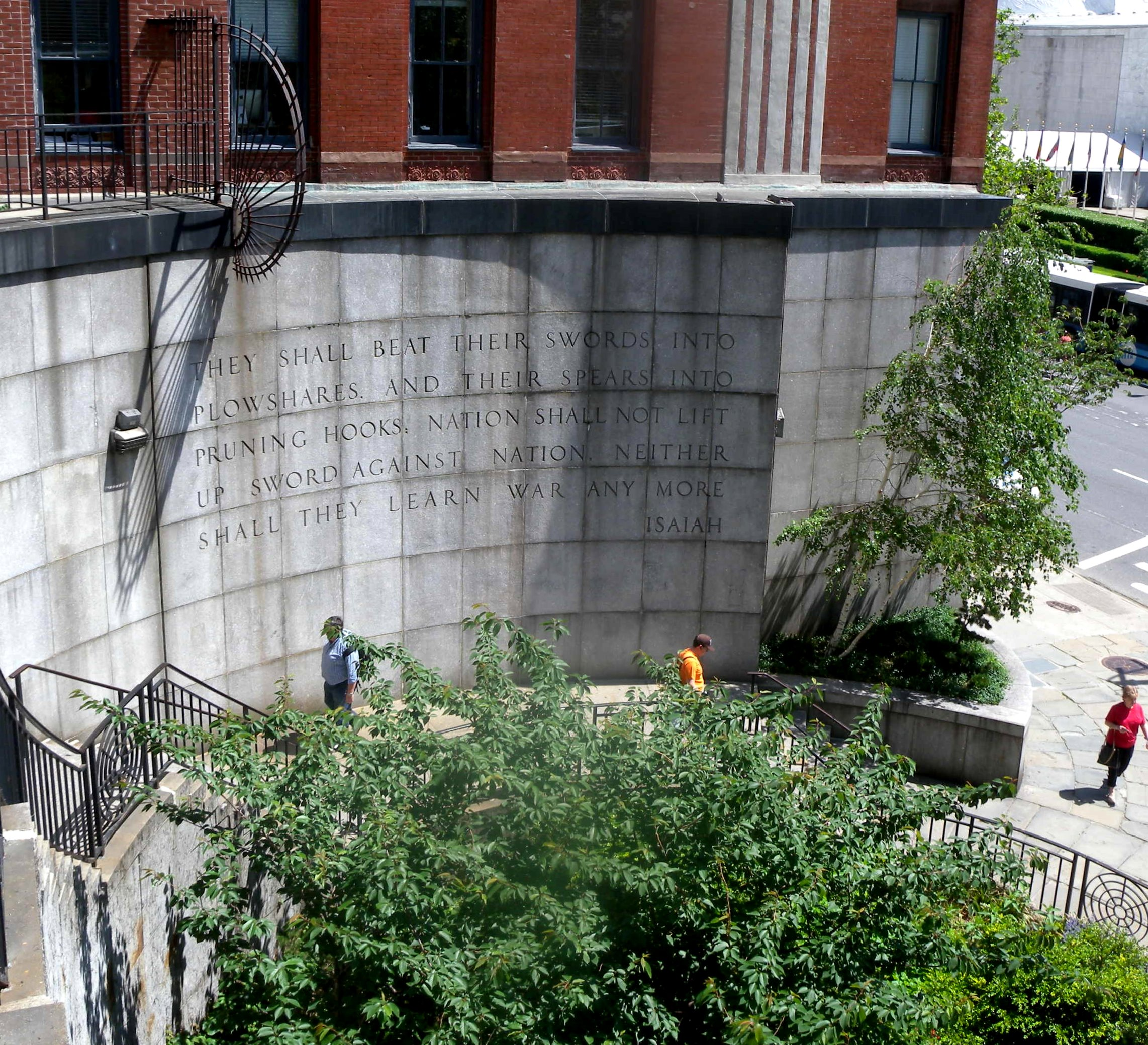 Looking northeast from stairway top at inscription in Ralph Bunche Park on a sunny late midday.